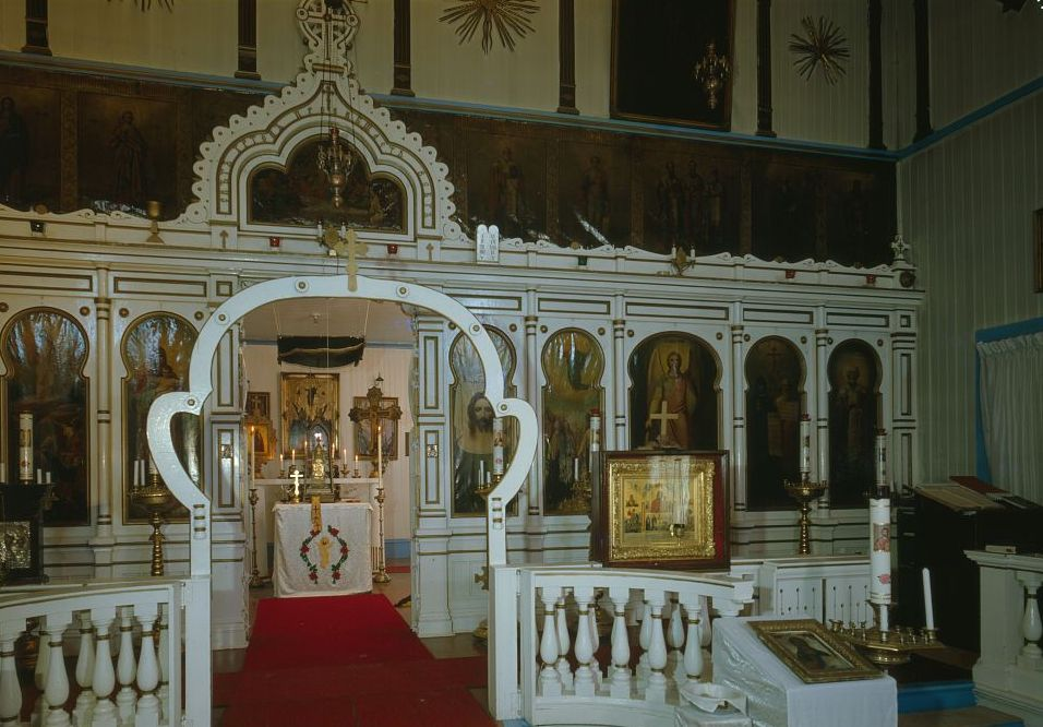 INTERIOR, NAVE, ICONOSTAS, DETAIL OF RIGHT HALF, ROYAL DOORS OPEN - Holy Ascension Russian Orthodox Church, Unalaska Island, Unalaska, Aleutian Islands, AK